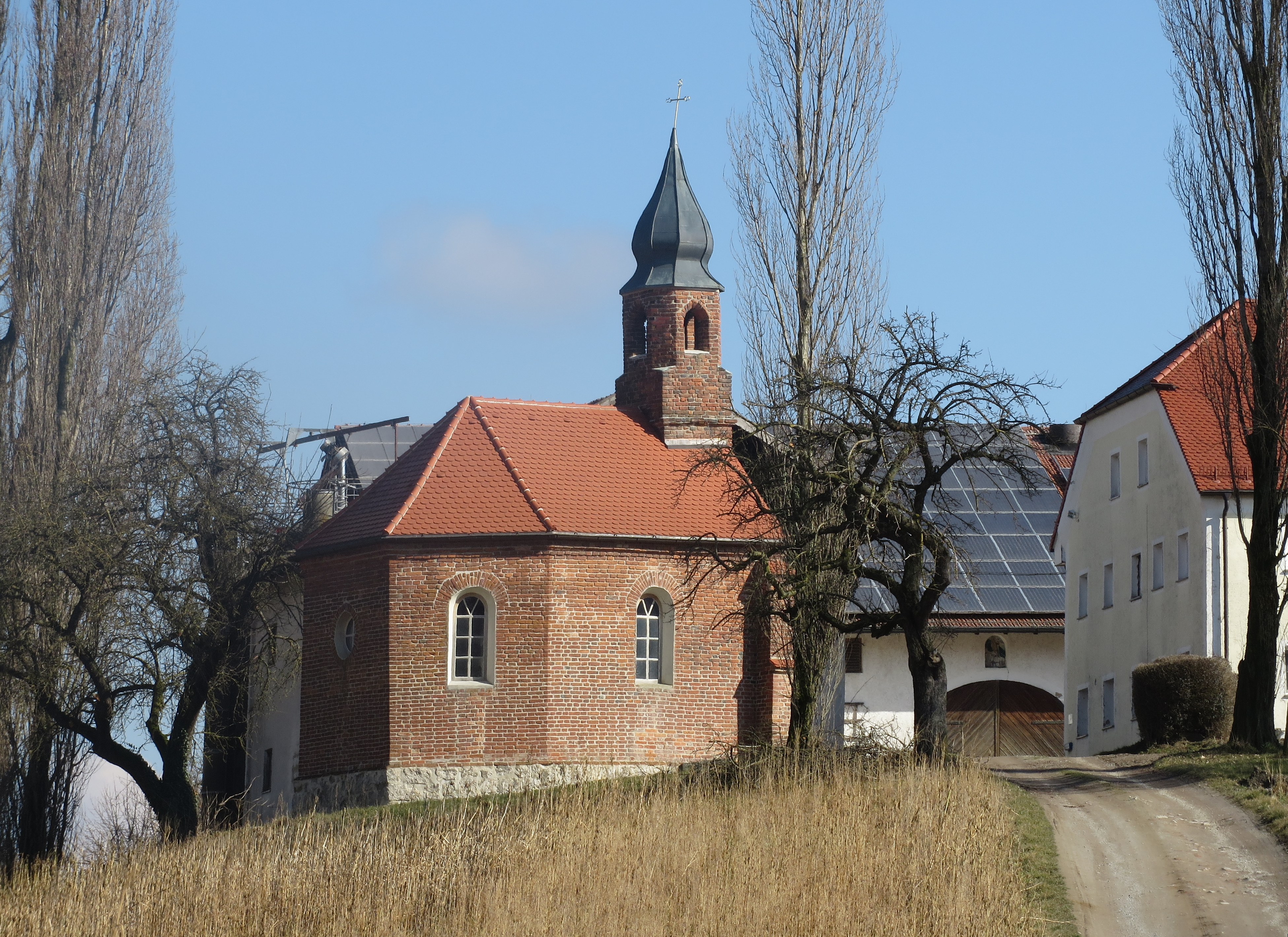 Chapel in Neukl near Reutern, district of Passau, Lower Bavaria This is a photograph of an architectural monument.